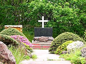 A monument in Shariki, Aomori, Japan